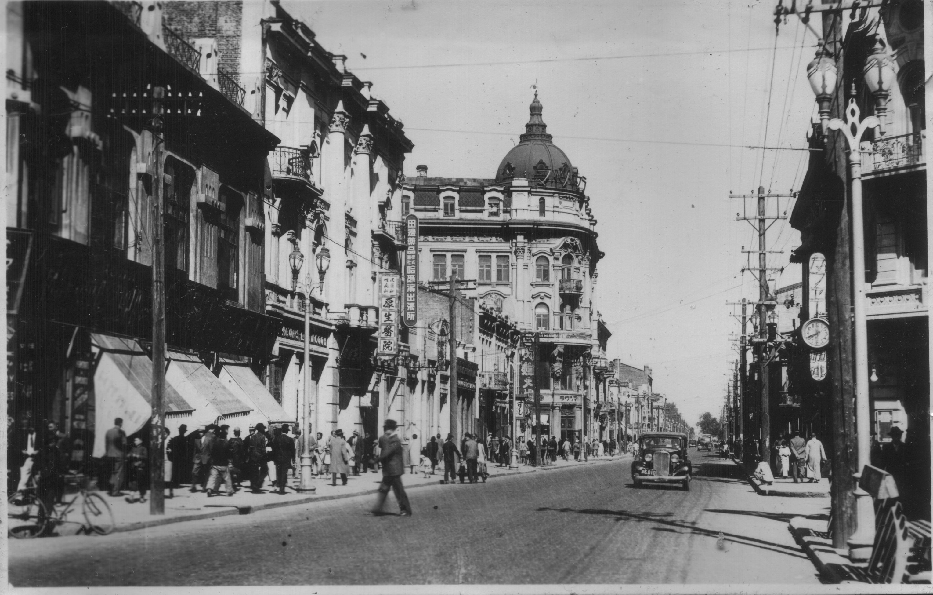 Harbin Kitaisukaya Street around 1940.